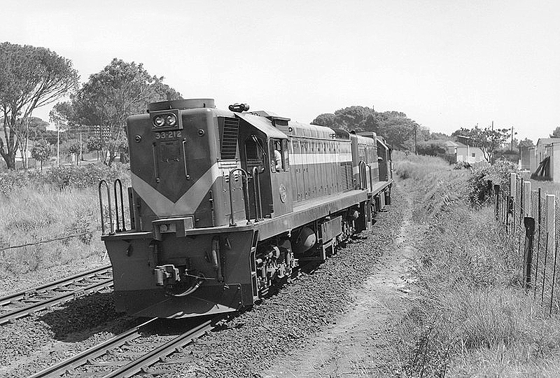 Class 33-200 no. 33-212 & Class 33-000 no. 33-023Location: near Vincent